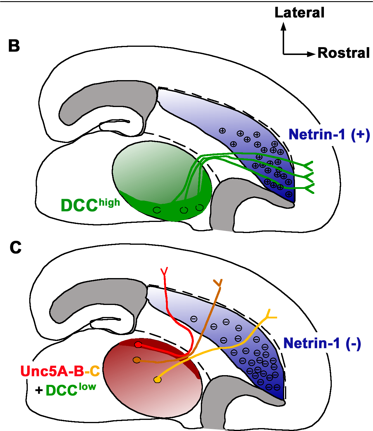 Model of the Role of Netrin-1 Signaling in the Topography of Thalamocortical Projections in the Ventral Telencephalon of the Mouse (B and C). A high-rostral to low-caudal gradient of Netrin-1 in the ventral telencephalon (VTel) plays a critical role in the topographic projection of dorsal thalamus (DTh) axons in the VTel. Rostromedial domain of the DTh expresses high levels of DCC and that the caudolateral domain of the DTh expresses low levels of DCC. This gradient is required for both the attraction of rostral dorsal thalamus (DTR) axons and the repulsion of caudal dorsal thalamus (DTC) axons to the Netrin-1–rich rostral domain of the VTel. Unc5A and B are expressed preferentially in the caudolateral domain of the DTh and Unc5C is expressed in a high-caudolateral to low-rostromedial gradient in the DTh. Unc5A/C are required for the repulsion of caudal DTh axons from the Netrin-1–rich domain of the VTel, but they do not play any significant role in the projection of rostromedial DTh axons. Also over-expression of Unc5C in DTR axons is sufficient to convert their outgrowth into DTC outgrowth, i.e., repulsion away from the Netrin-1–rich rostral domain of the VTel. A1, primary auditory area; GE, ganglionic eminence; M1, primary motor area; S1, primary somatosensory area; V1, primary visual area.